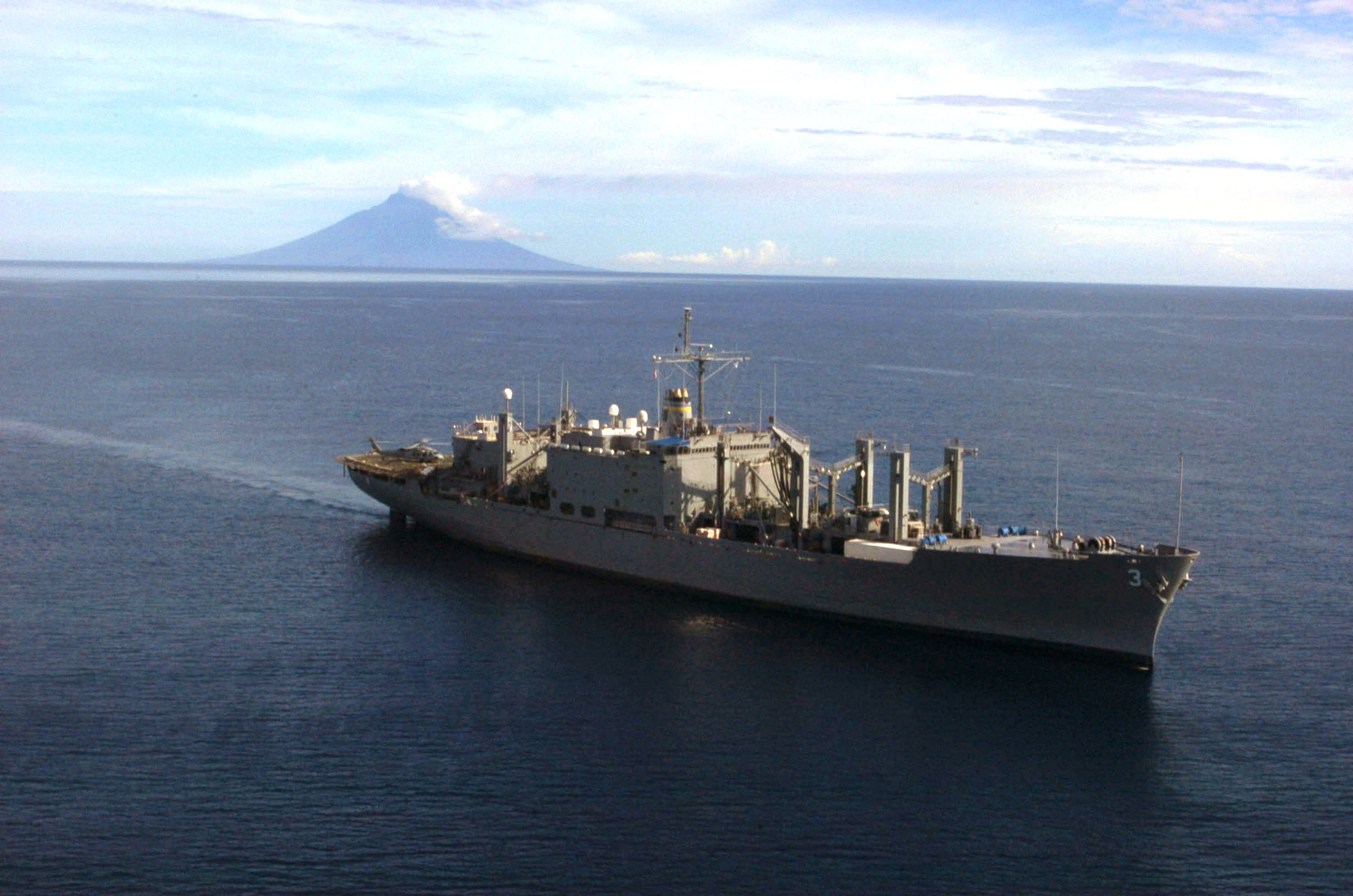 Madang, Papua New Guinea (May 17, 2005) — The Military Sealift Command (MSC) combat stores ship USNS Niagara Falls (T-AFS-3) sails off the coast of Madang, with an active volcano in the background as it transports medical personnel from the MSC hospital ship USNS Mercy (T-AH-19) to the local village to provide health care and community relations (COMREL). The Mercy and Niagara Falls is currently station off the coast of Papua New Guinea to provide humanitarian assistance and focused medical care to the residents affected by a volcano eruption in the area.